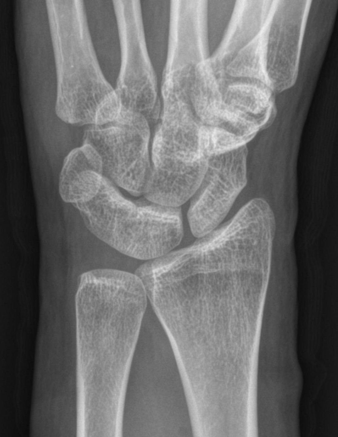 Lunotriquetral coalition in X-ray. It's the most common type of carpal coalition.